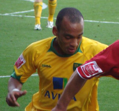 Elliott Omozusi